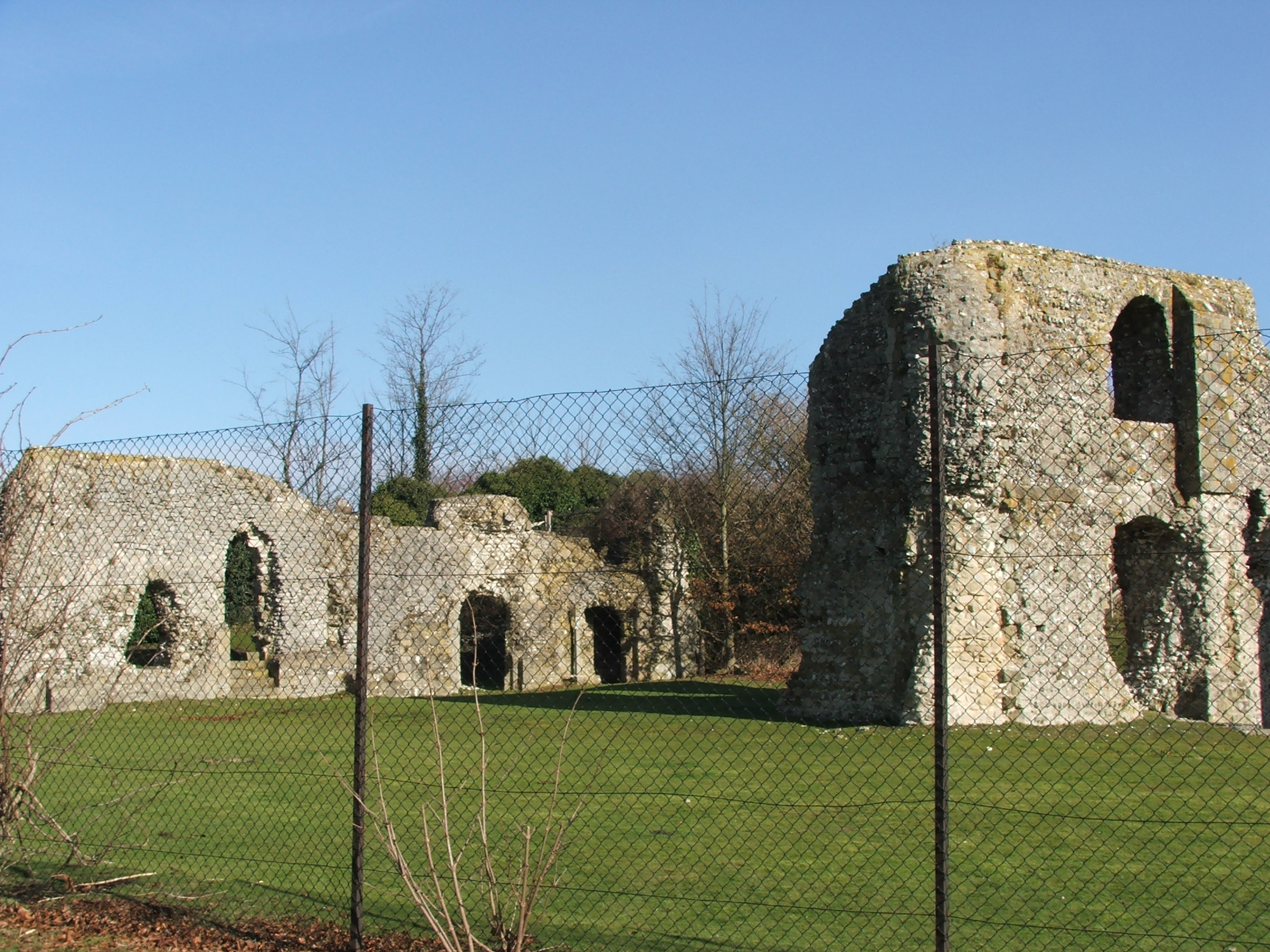 The ruins of the Lewes Priory.